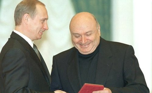 Soviet and Russian satiric writer and a stand-up comedian Mikhail Zhvanetsky.